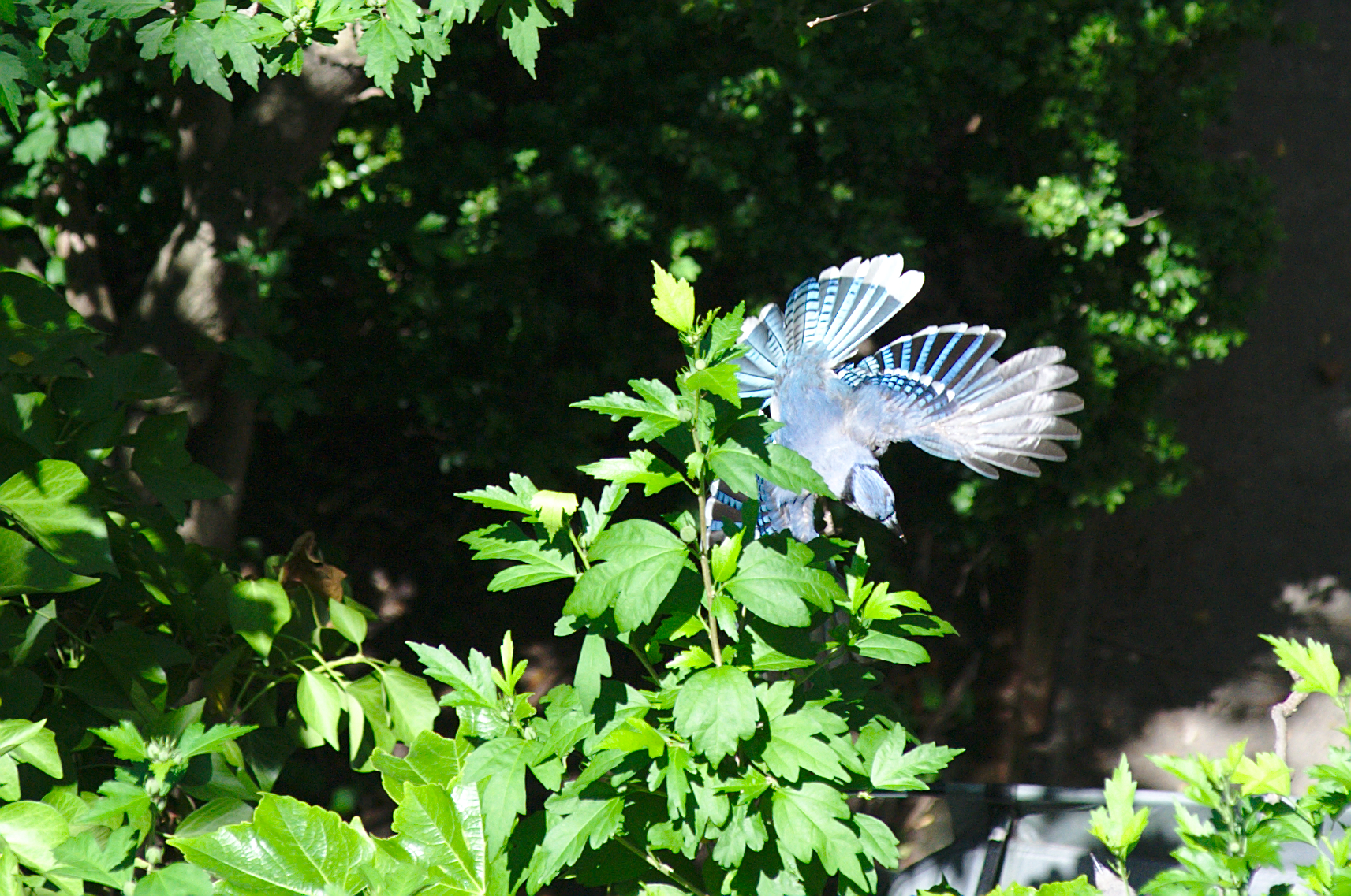 Blue Jay. Photograph taken in New York City. This bird was taking care of two juveniles between West 74th and West75th Street, a few blocks from Central Park.